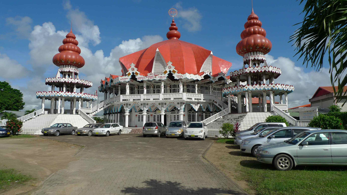 Arya Dewaker Temple, Paramaribo, Suriname